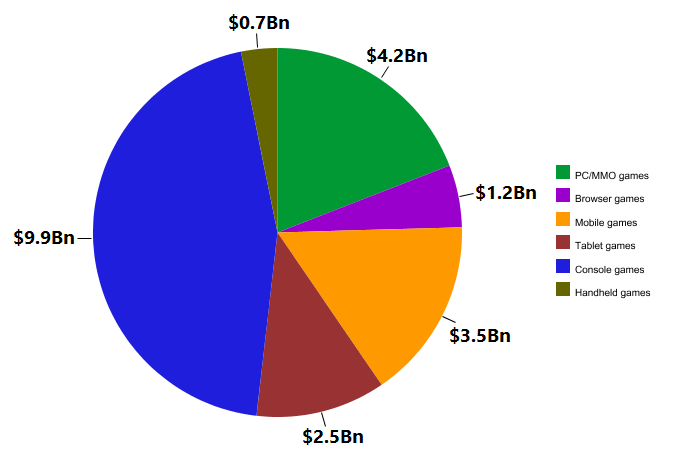 Pie graph of the video game market in the United States of America in billions of US dollars, in 2015. Console gaming is the largest segmant of the US game market, followed by PC and mobile. Handheld gaming only takes up a small portion of the market. Newzoo 2015 Global Games Market Report Premium (2015-02-04). "USA & China Battle for#1 Top Games Market". Games Sector Report 2015. Casual Games Association. Chart by User:Maplestrip